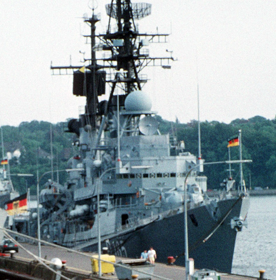 German destroyers Lütjens (D 185)